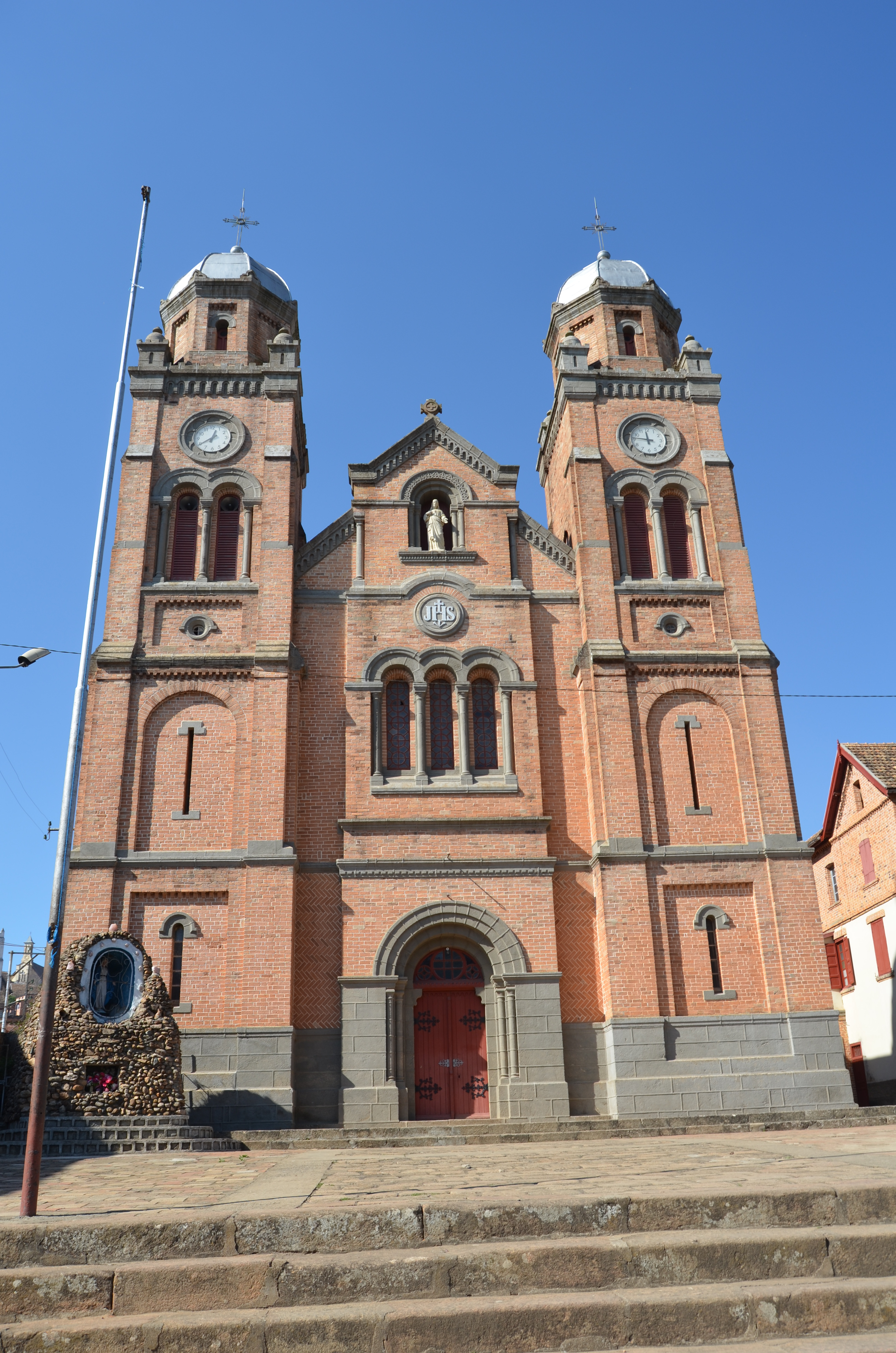 Front view of the Cathedral of the Holy Name of Jesus of Fianarantsoa.